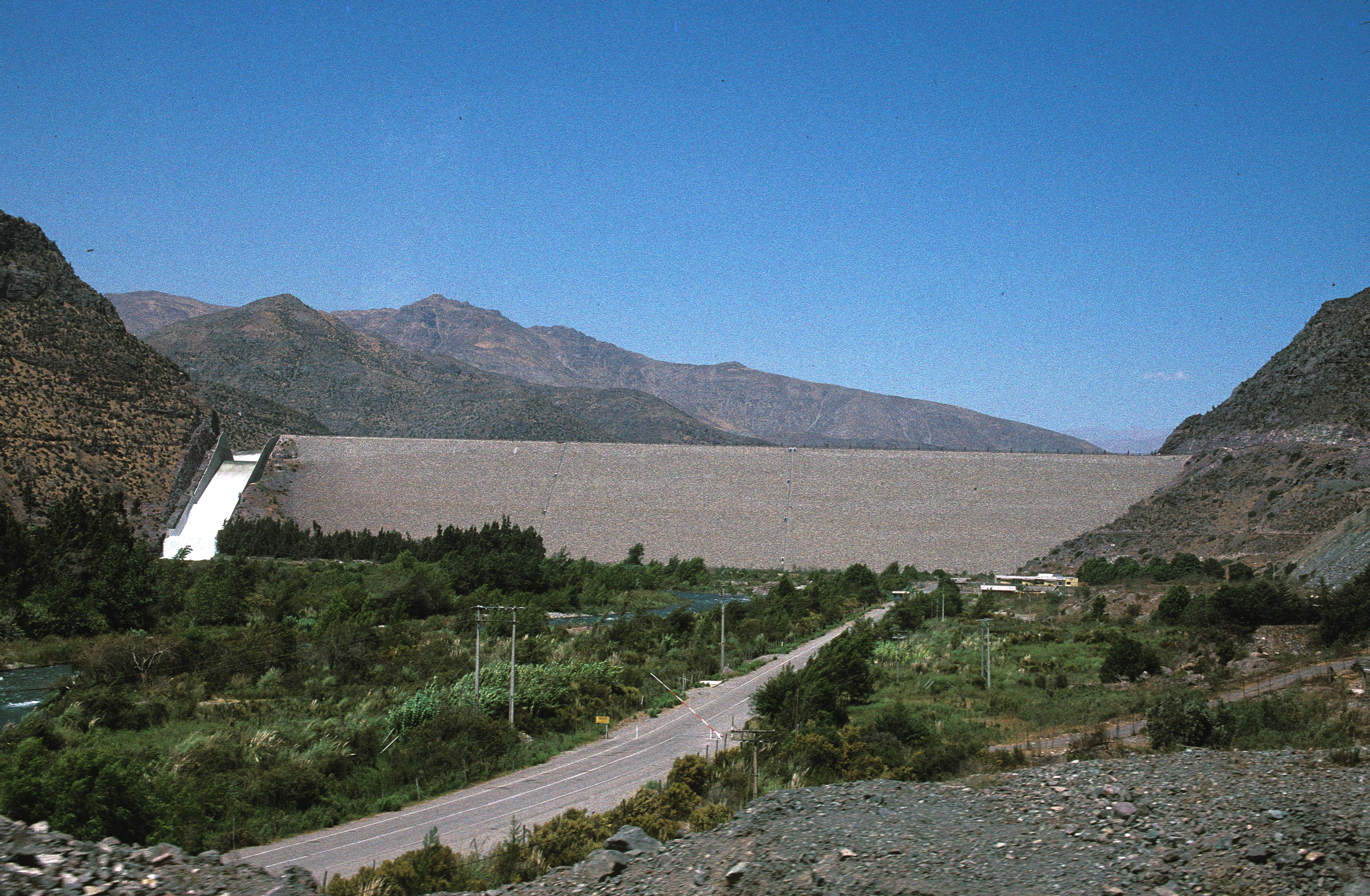 THE ELQUI VALLEY WITH THE PUCLARO DAM WHICH PROVIDES IRRIGATION FOR THE AREA